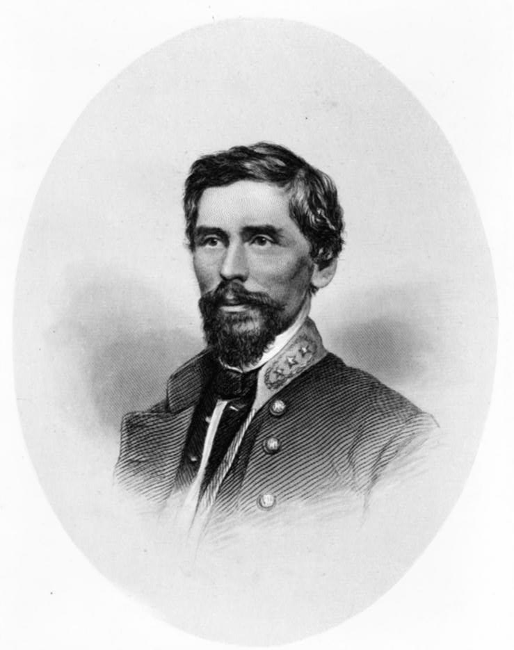 Library of Congress Civil War Photograph Collection: TITLE: [Maj. General Patrick R. Cleburne, head-and-shoulders portrait, facing left] CALL NUMBER: LOT 4213 [P&P] REPRODUCTION NUMBER: LC-USZ62-107446 (b&w film copy neg.) MEDIUM: 1 print : engraving. CREATED/PUBLISHED: [between 1860 and 1870?] NOTES: Civil War Photograph Collection.